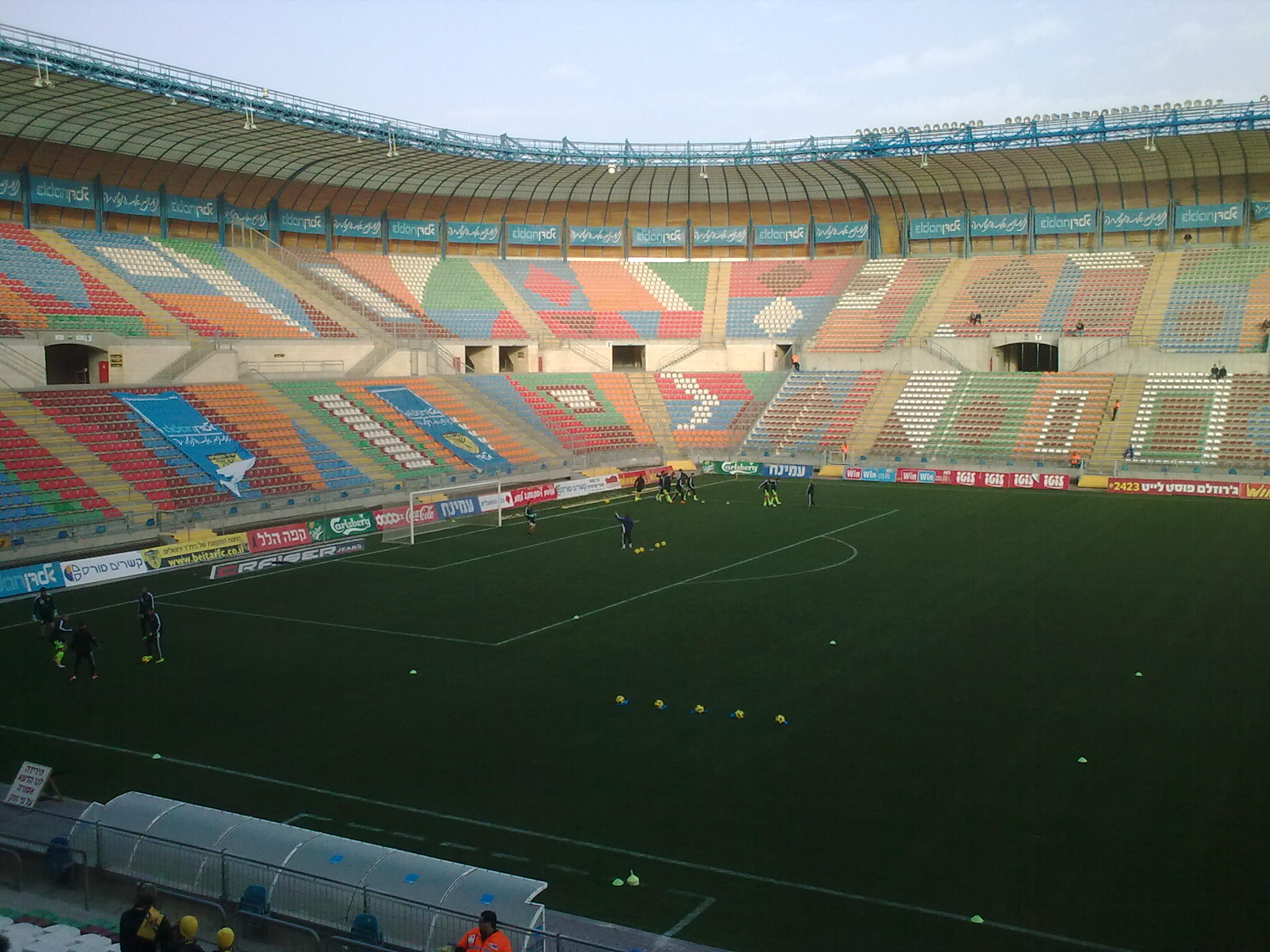 Teddy Stadium, Jerusalem